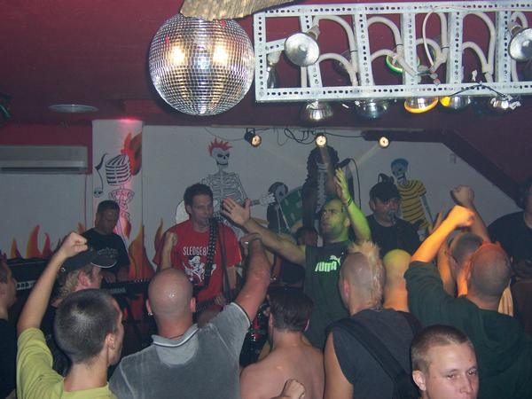 A photo from 2009..The only event of C.A.F.B. with Gabor Hun Szakacsi since 1999. A group of skinhead and punk fans of the influental Hungarian punk outfit C.A.F.B..